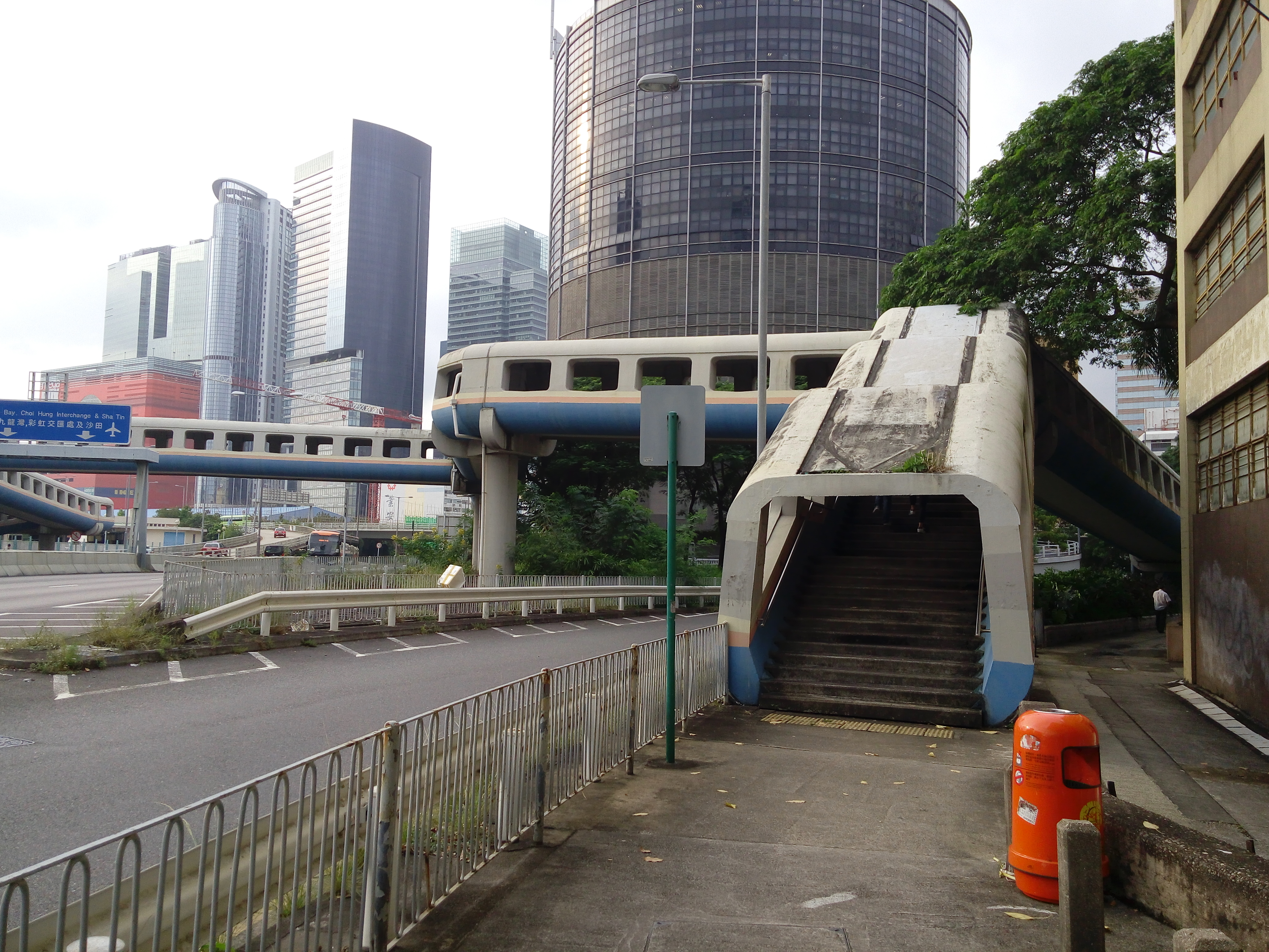 Jimmy Bridge is a footbridge in Kwun Tong, Hong Kong.